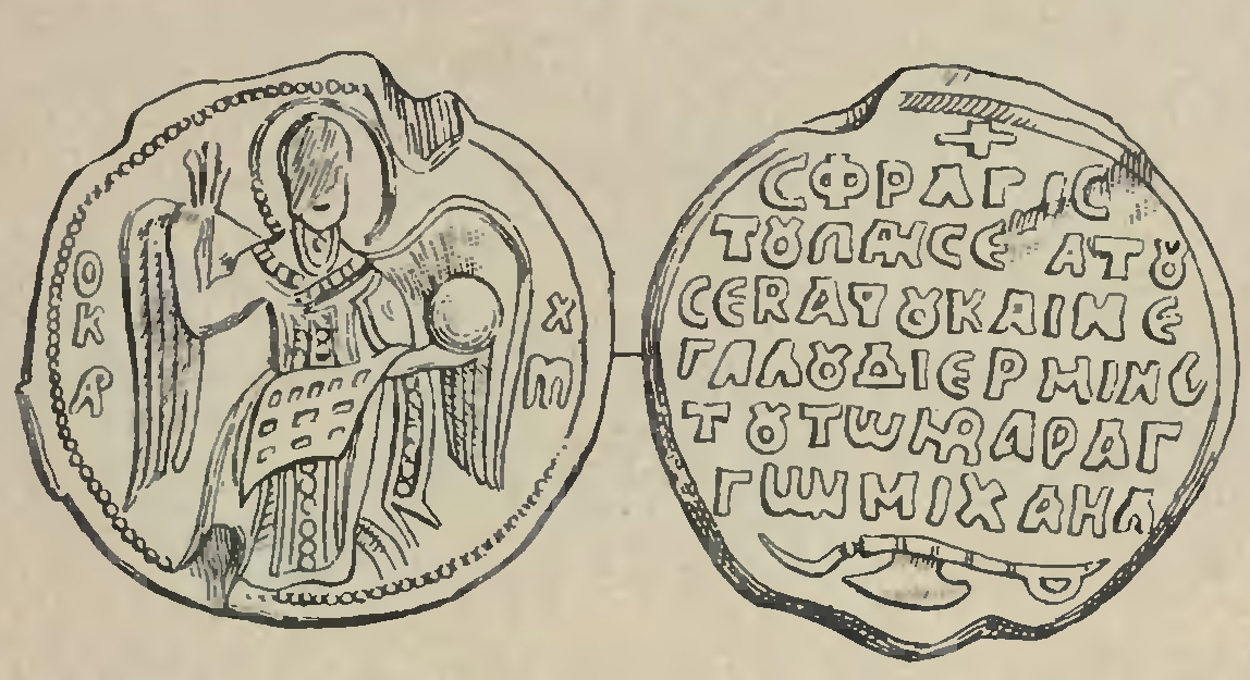 The only known seal of Grand Interpreter of byzantine Varangian Guard